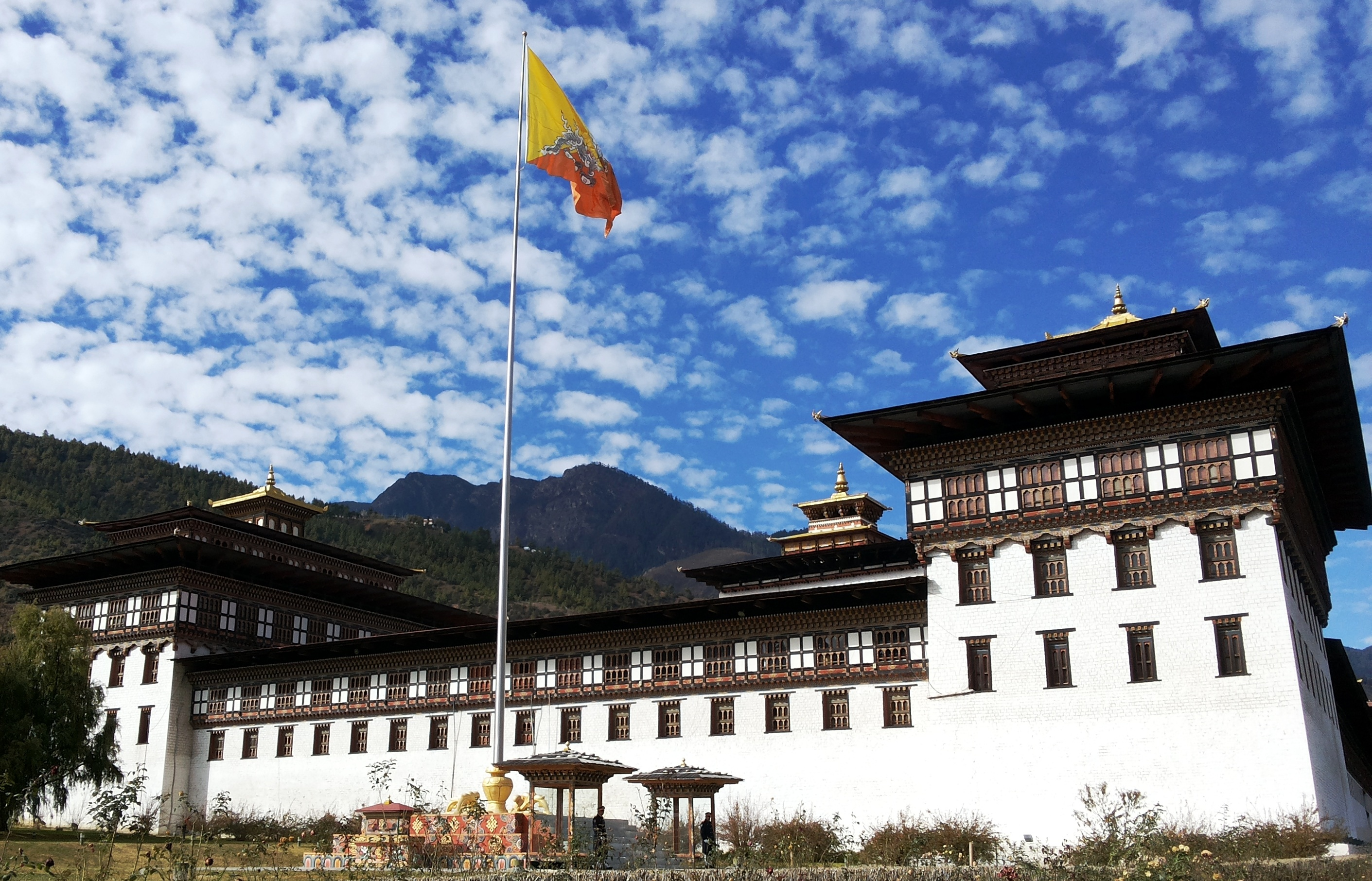 El Tashichoe Dzong de Timbú, en la capital de Bután.